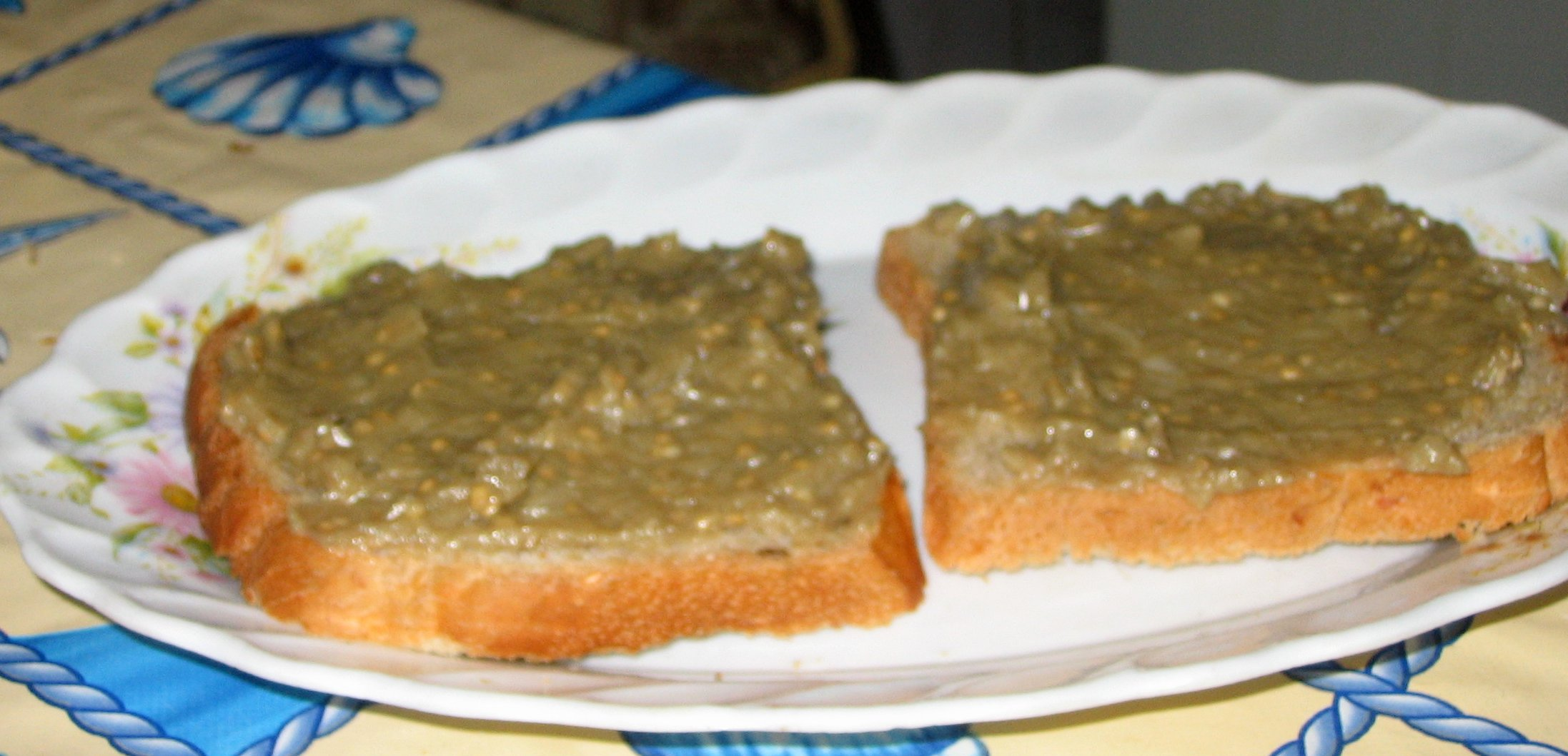 Salata de vinete (eggplant salad) spread on slices of bread